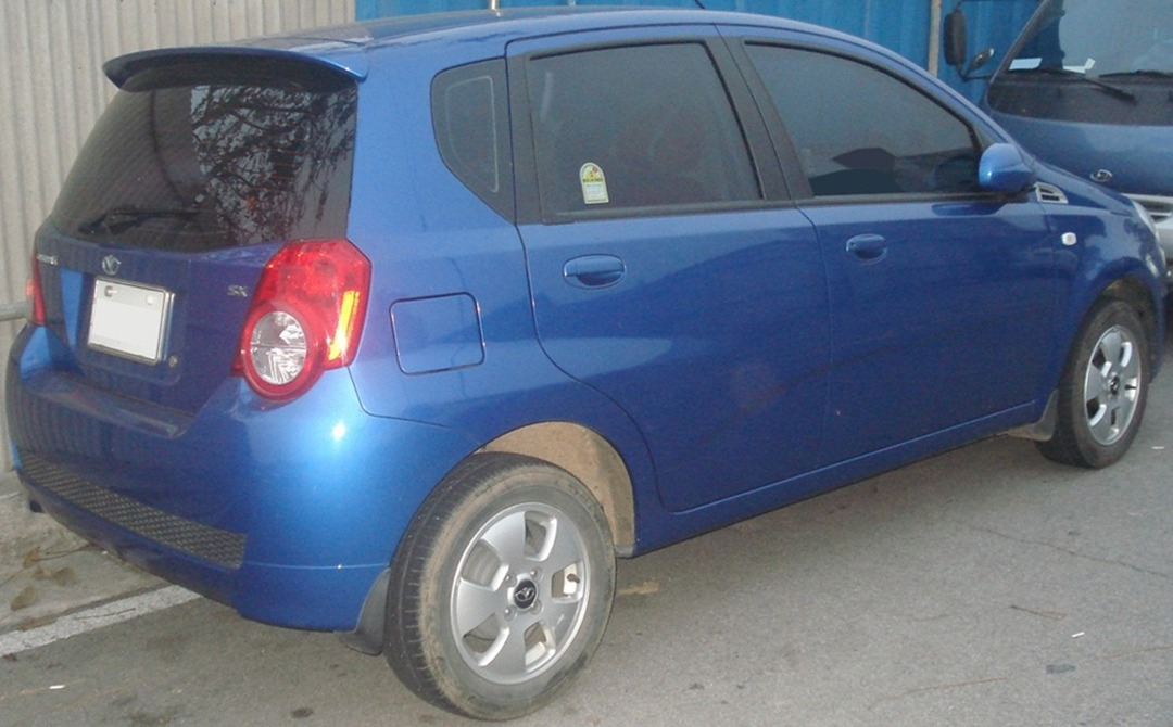 Daewoo Gentra X